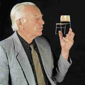 David Rowland and his masterpiece 40/4 chair